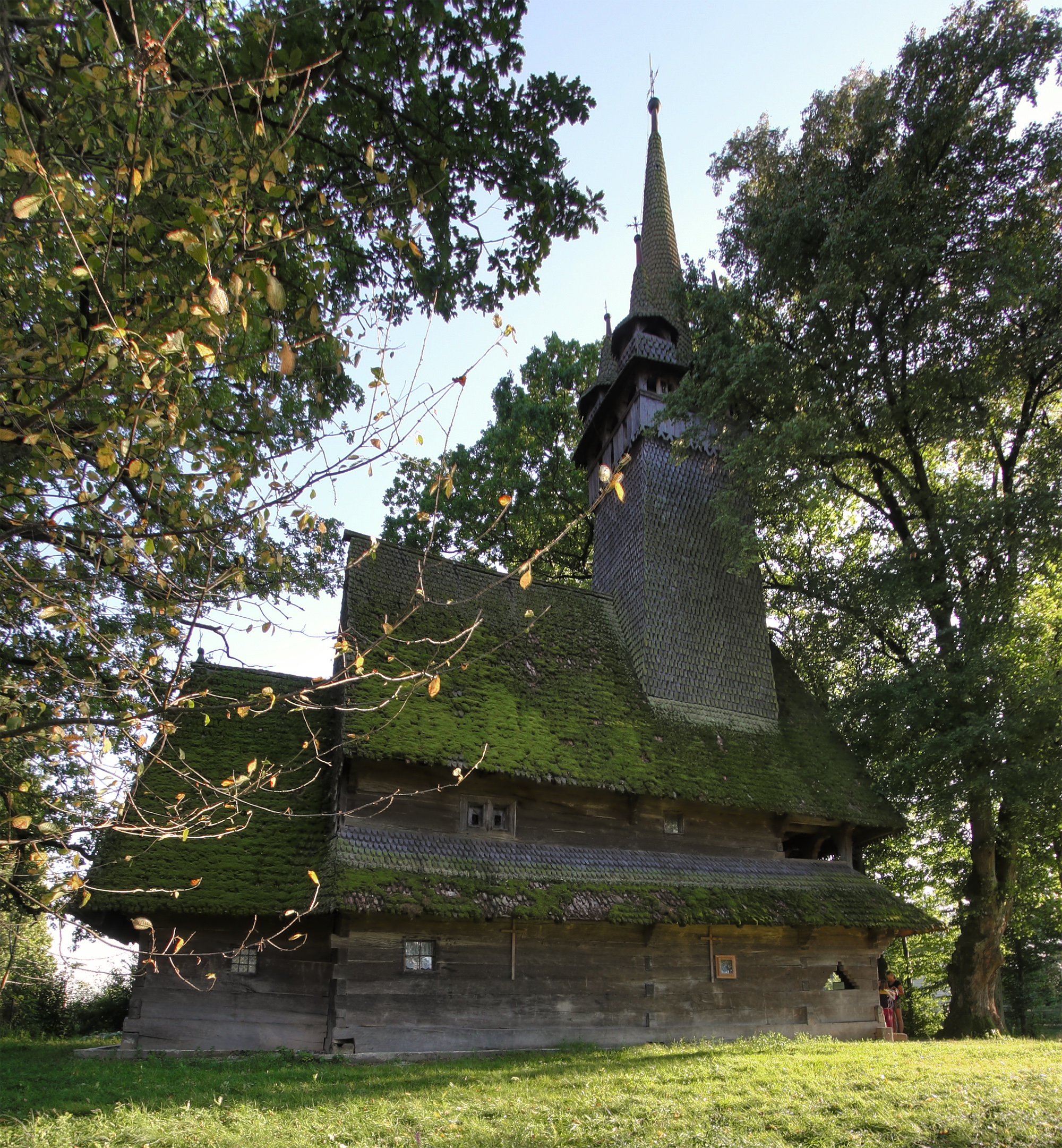 Church St. Michael, Krainykovo, Khust Raion, Zakarpattia Oblast, Ukraine